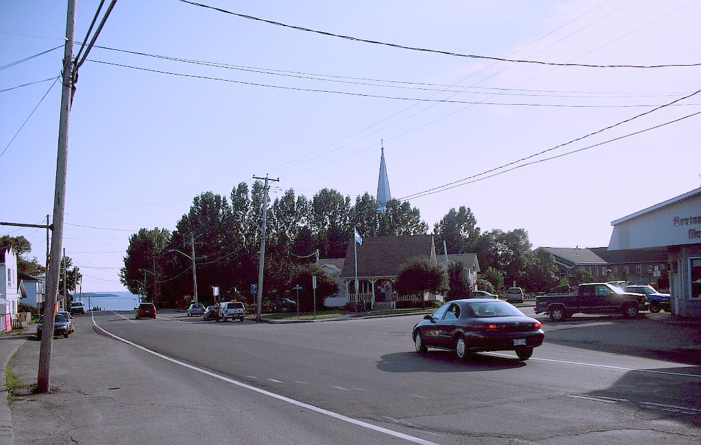 View of the main intersection in Notre-Dame-du-Nord, in Témiscamingue RCM, where Route 101 (called rue Principale Nord et Sud) meets with rue Ontario that extends to the Ontario border and becomes Highway 65 there. In the background is the northern end visible of Lake Timiskaming.